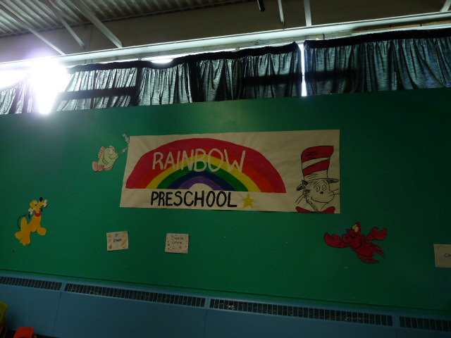 Images inside of Milton District High School in Milton, Ontario, Canada